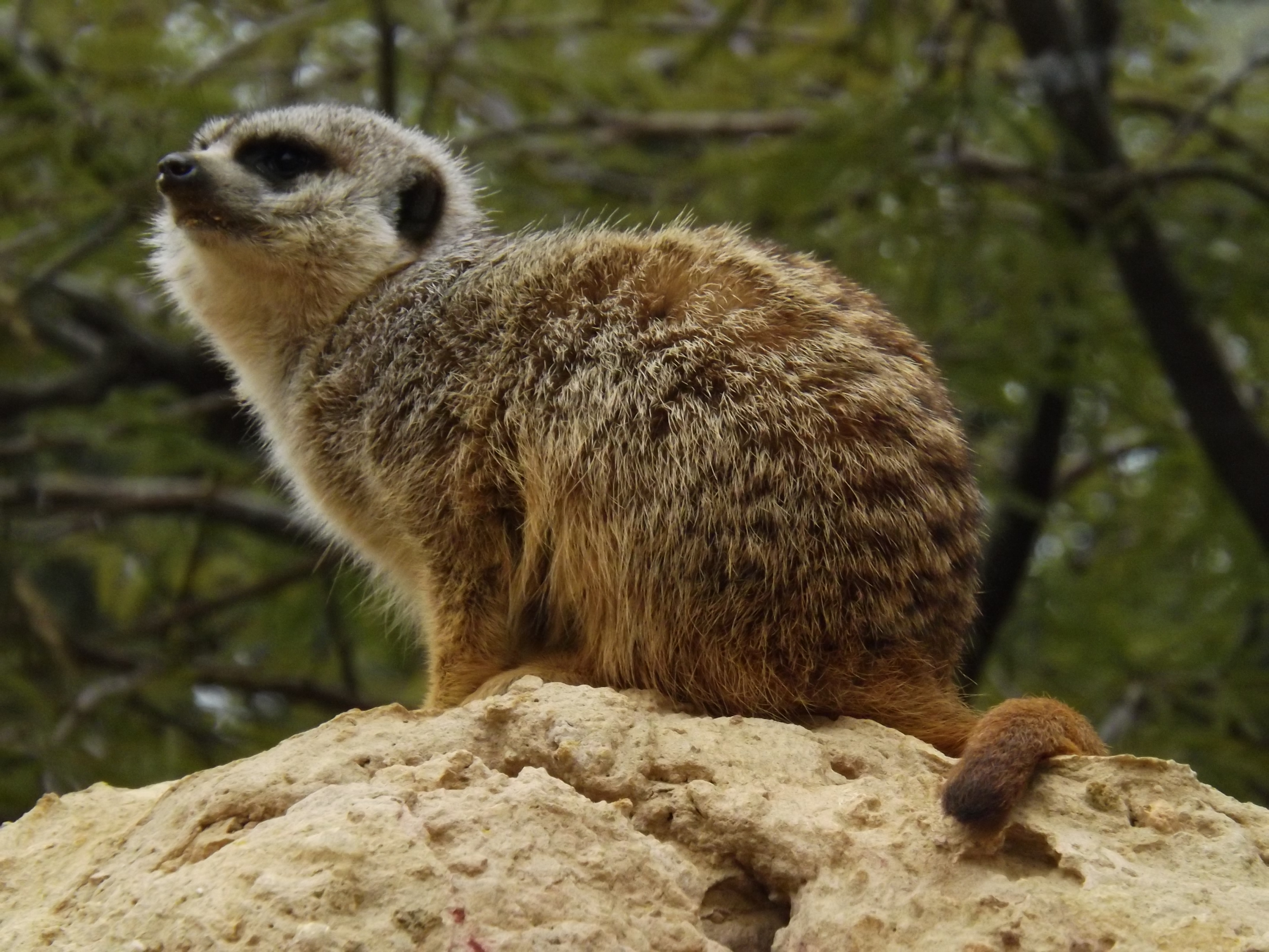 A Meerkat (Suricata suricatta) at the Jerusalem Biblical Zoo.